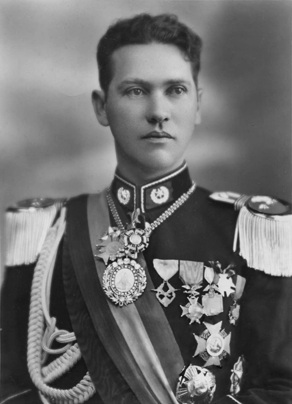 Germán Busch